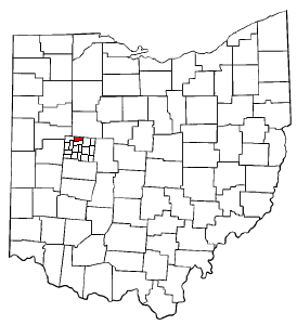 Adapted from Wikipedia's OH county maps. Created by SwissCelt.